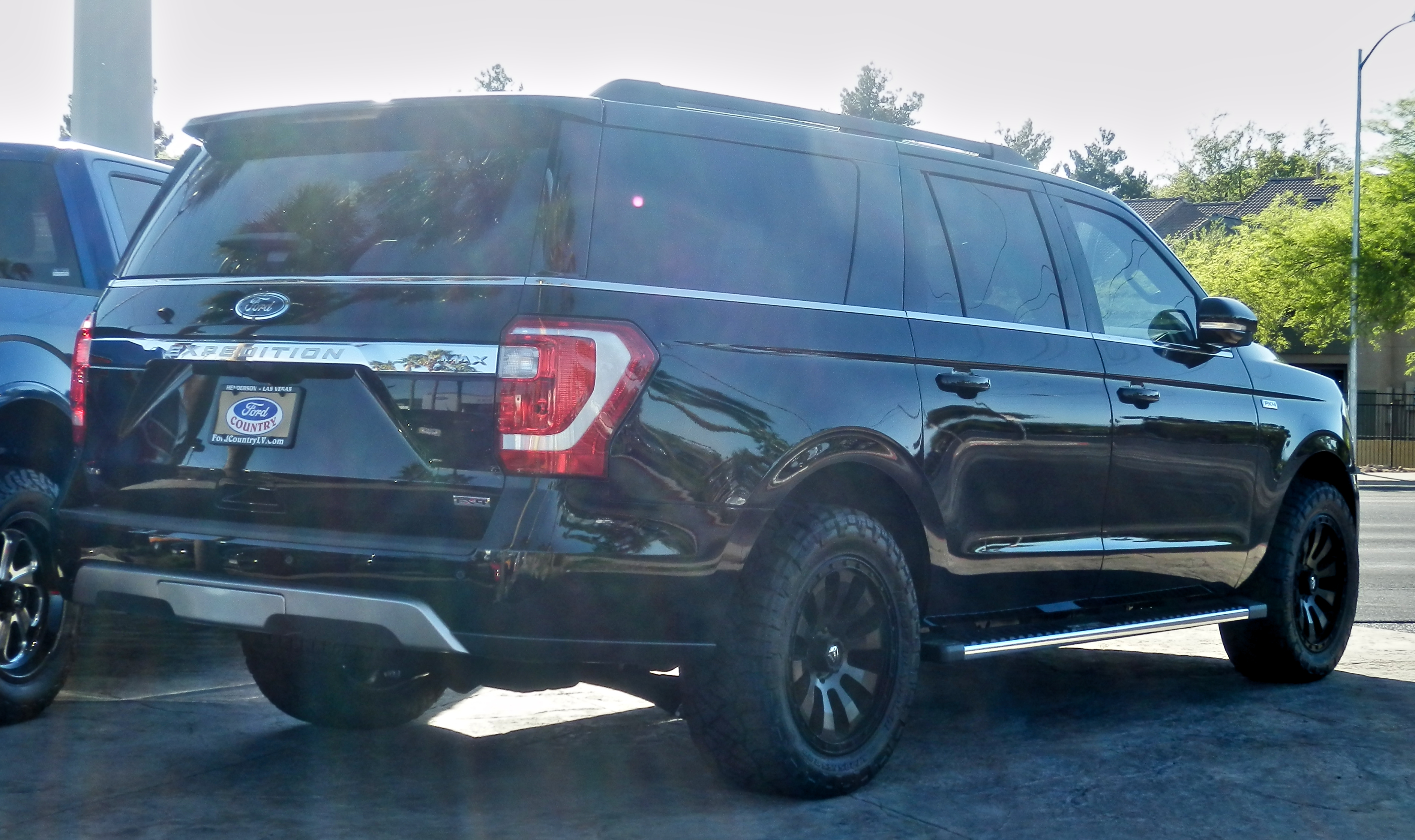 Ford Expedition MAX in Las Vegas